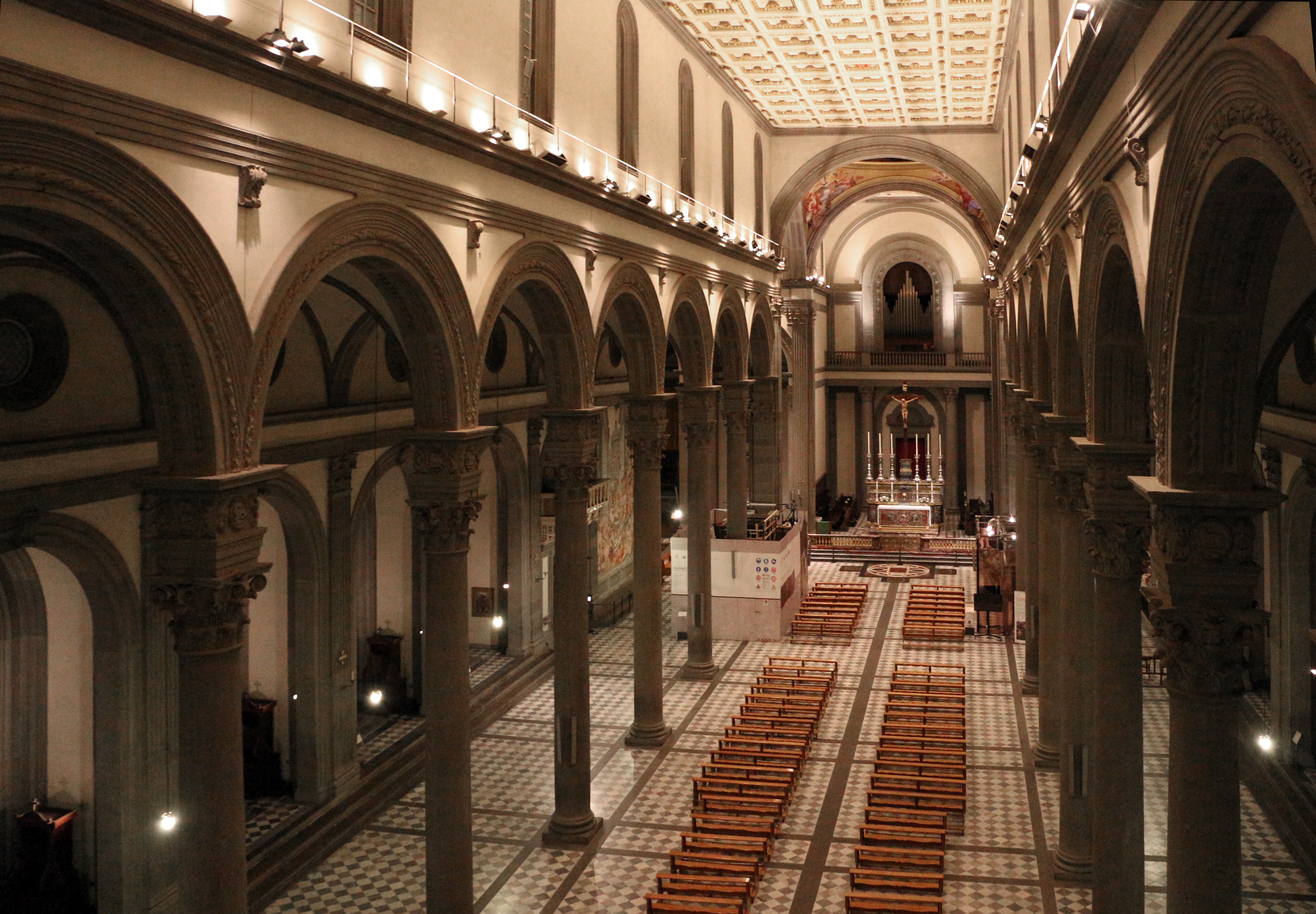 Interior of the Basilica of San Lorenzo (Florence)